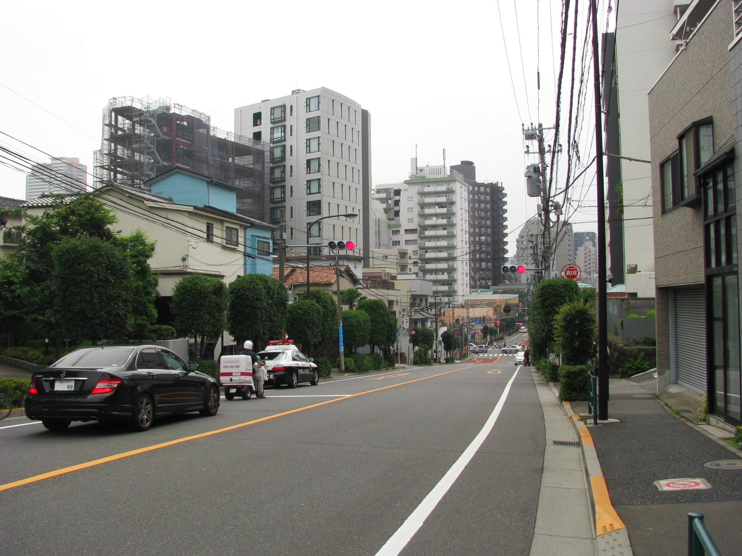 The Tokyo Prefectural Route 433. This location is Ichigaya-Yamabushichō in Shinjuku, Tokyo, Japan.